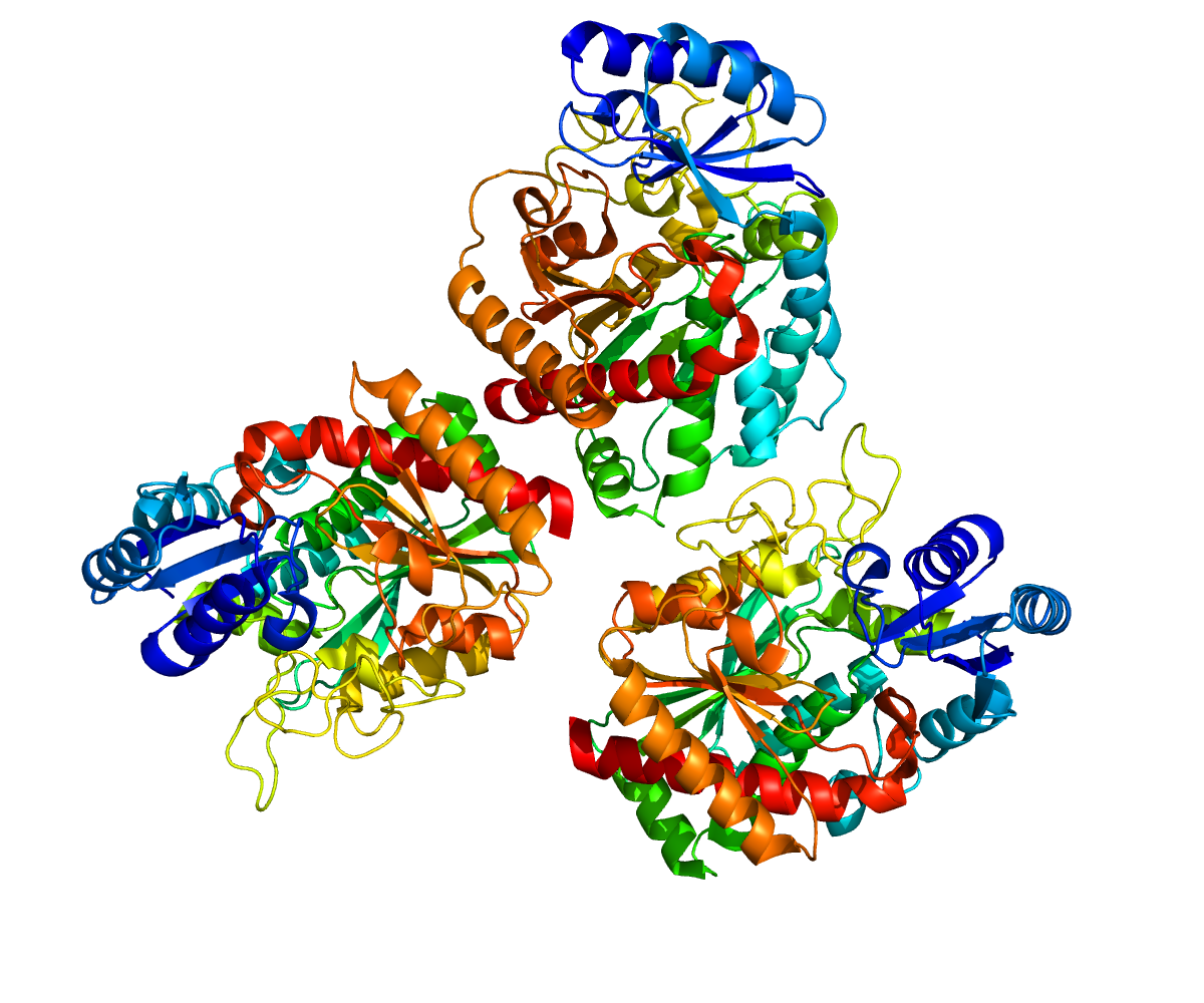 Structure of protein CPB2.Based on PyMOL rendering of PDB 3D66.